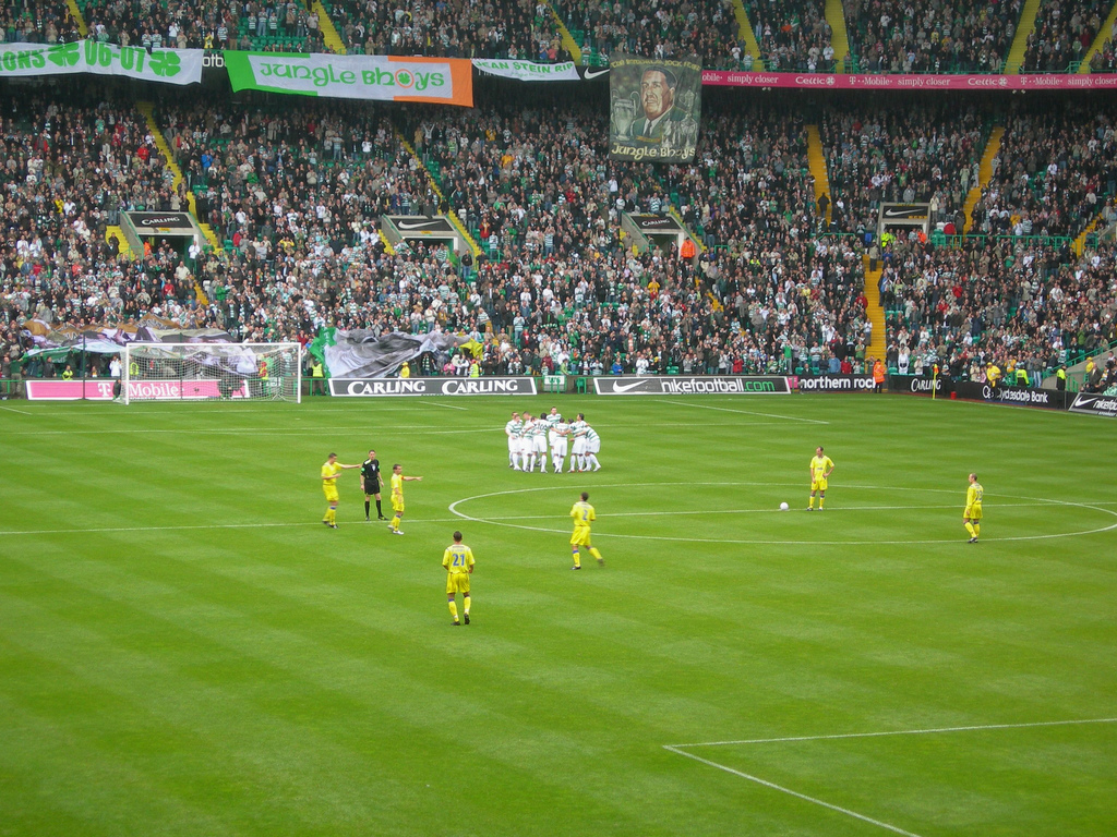 Gather round everyone!